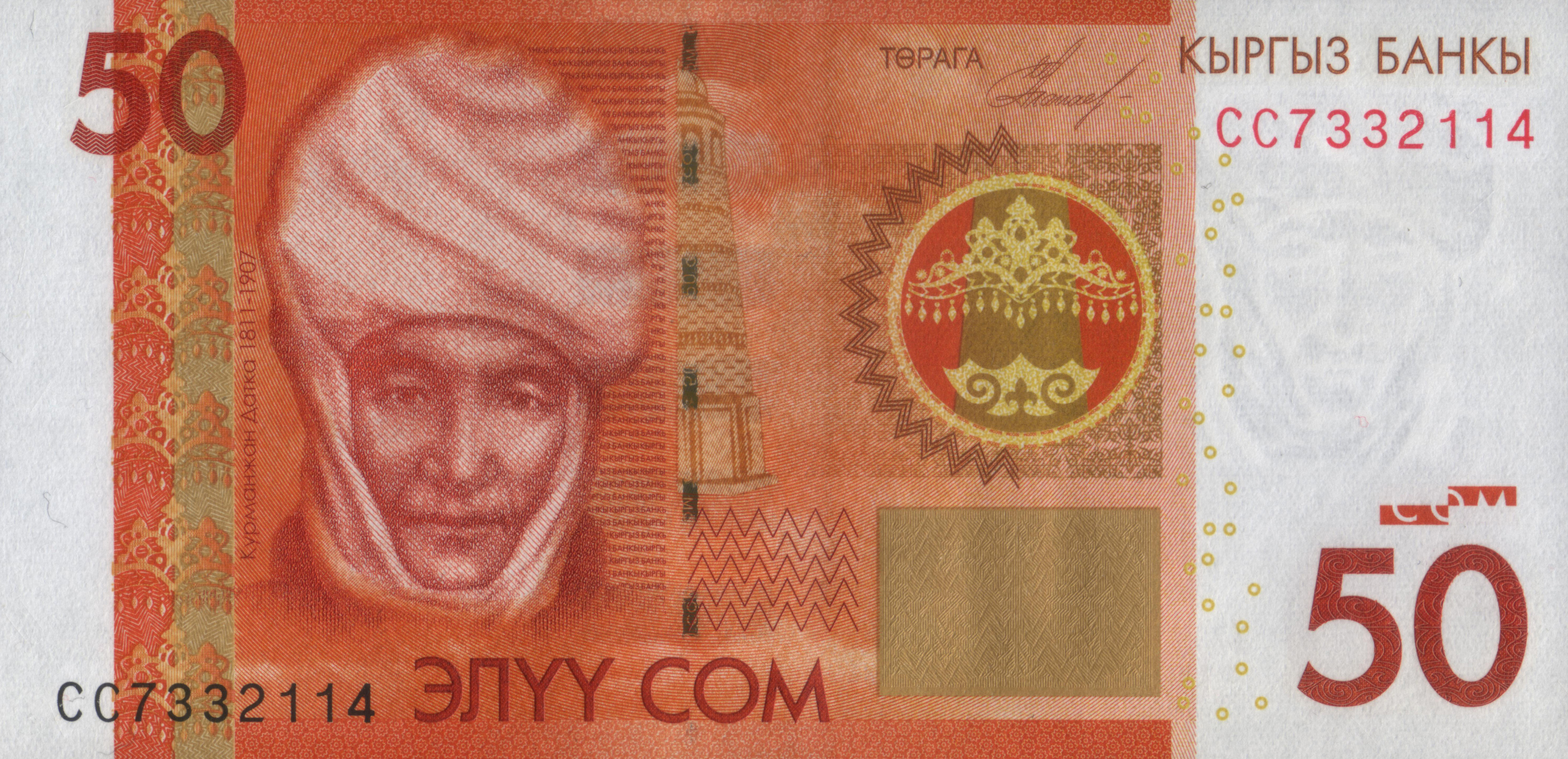 50 som of Kyrgyzstan (2009)